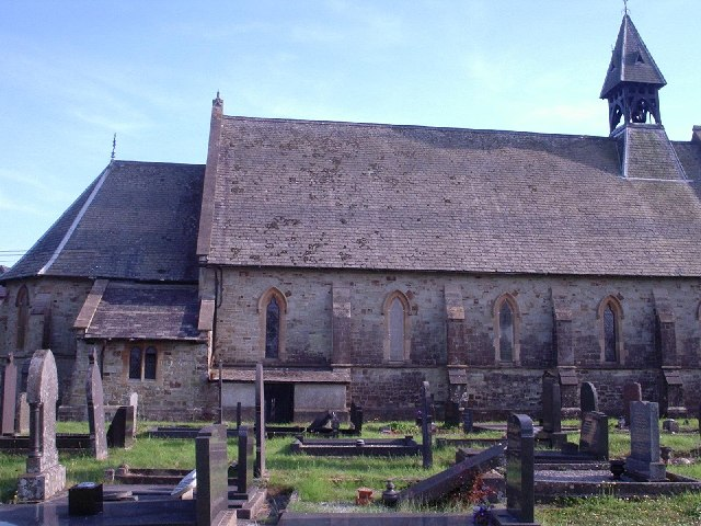 Parish church of St Barnabas, Drefach Felindre, Carmarthenshire, Wales, seen from the north. Built in 1863.